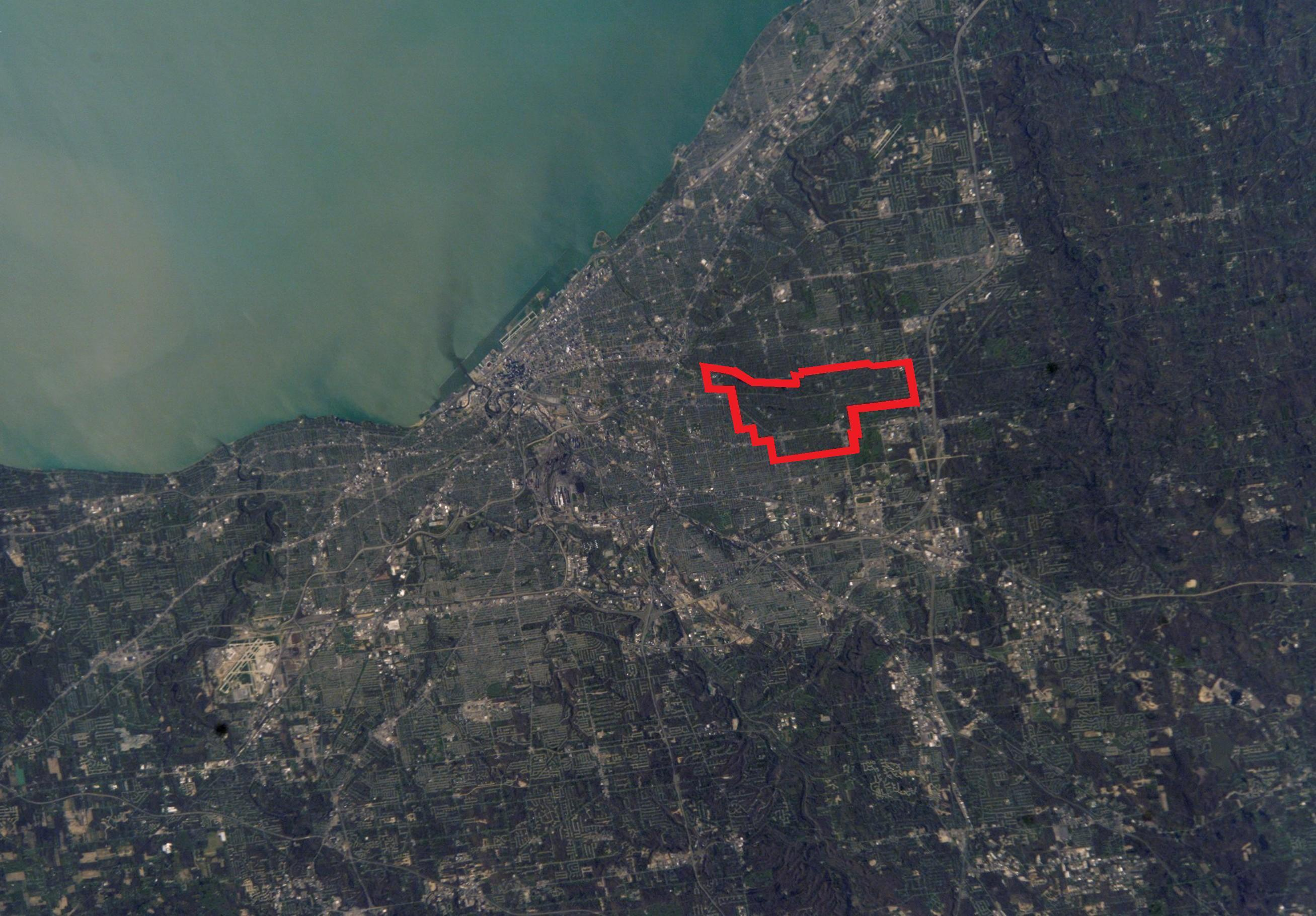 A sattelite photo of Greater Cleveland with Shaker Heights highlighted in red.